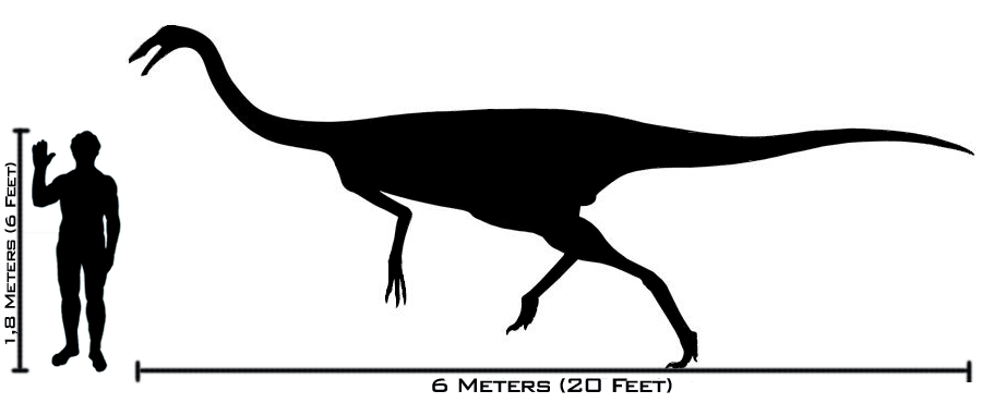 Size comparison between the ornithomimid Gallimimus and a human. Matches measurements listed in Paul, G. S. (1988). Predatory Dinosaurs of the World. P. 393